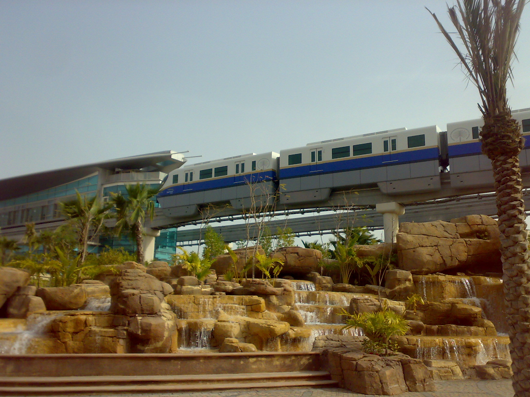 Test driving of the Dubai Monorail, under cosntruction, Atlantis end-station, Palm HJumeirah, Dubai (UAE)